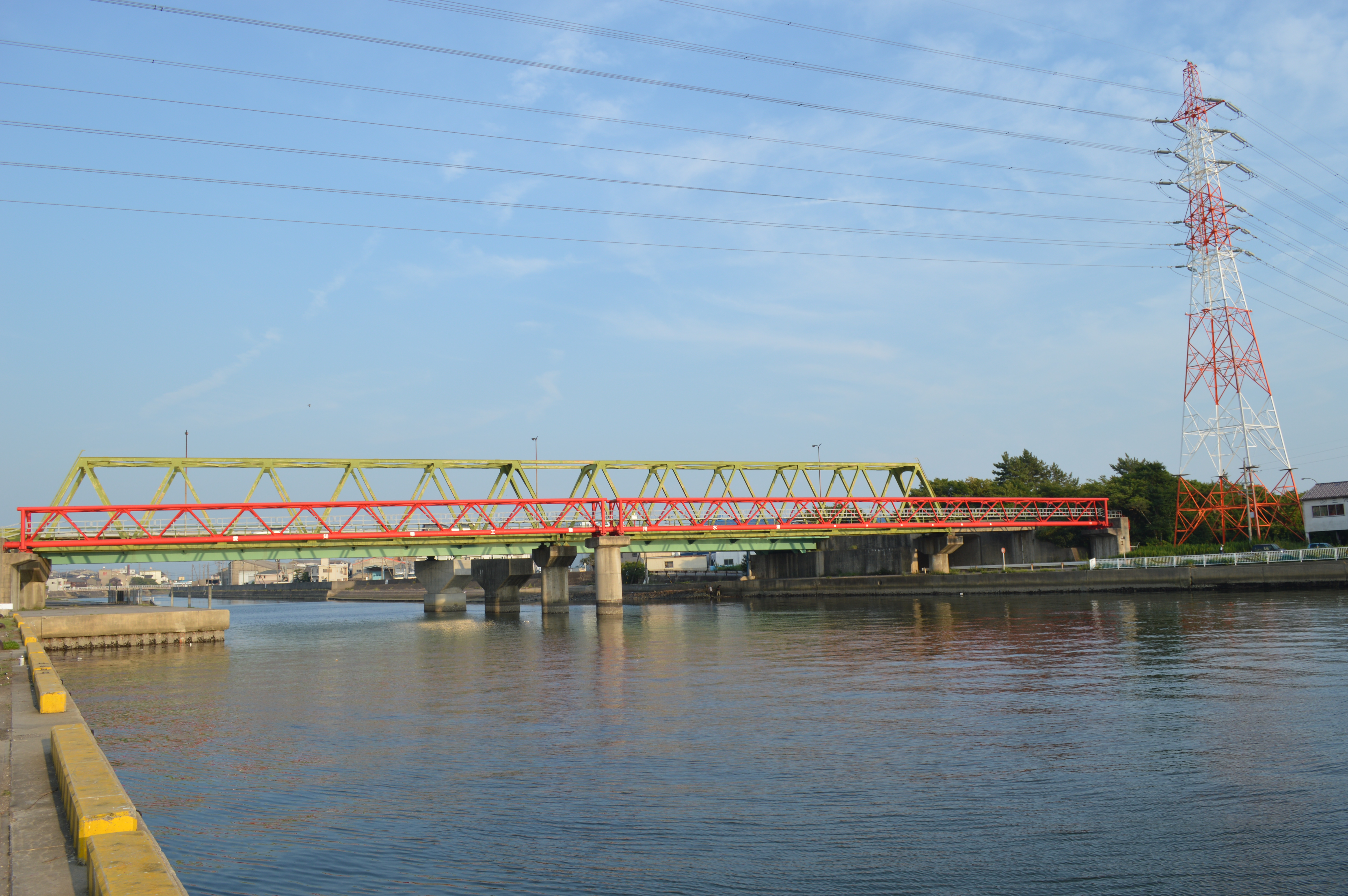 Kinuura Rinkai Railway and the national Route 247 over the Takahama River in Takahama City, Aichi Prefecture, Japan